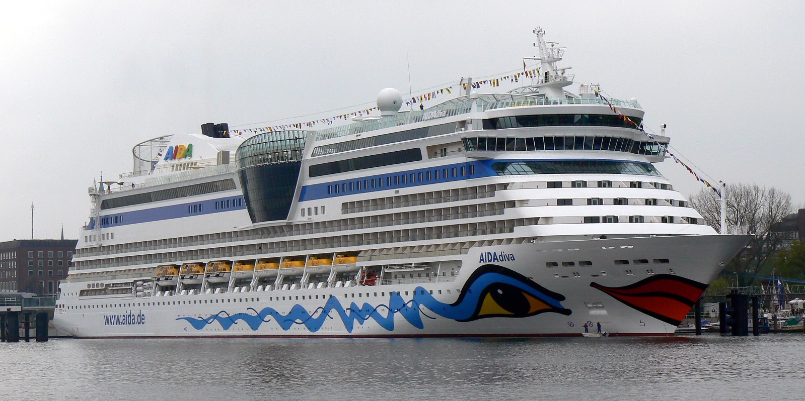 IMO Number: 9334856 MMSI Number: 247187700 Callsign: ICDH Length: 252 m Beam: 38 m